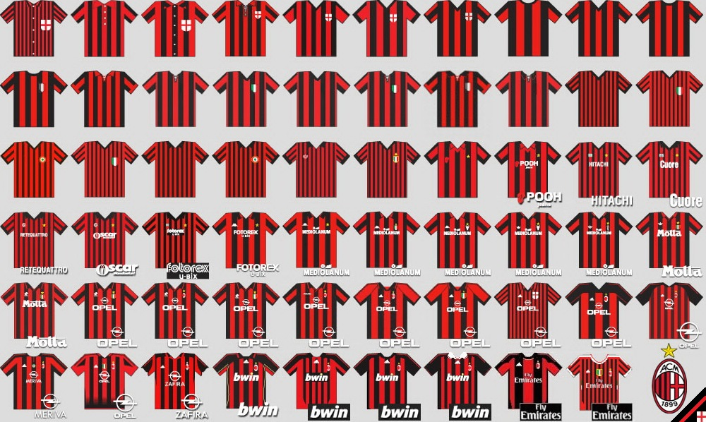 All-time A.C Milan Jersey